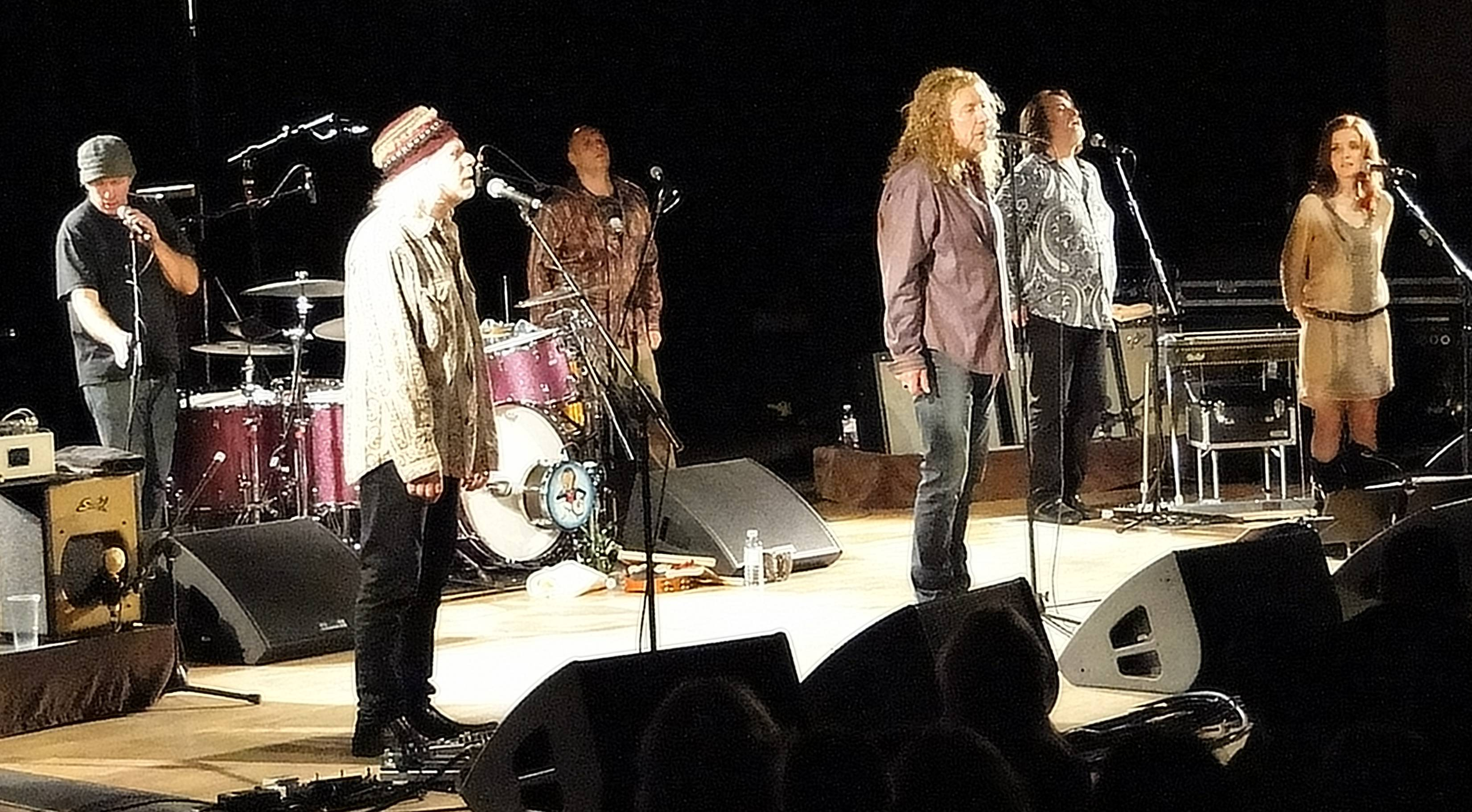 Band of Joy fronted by Robert Plant at Birmingham Symphony Hall 27 October 2010